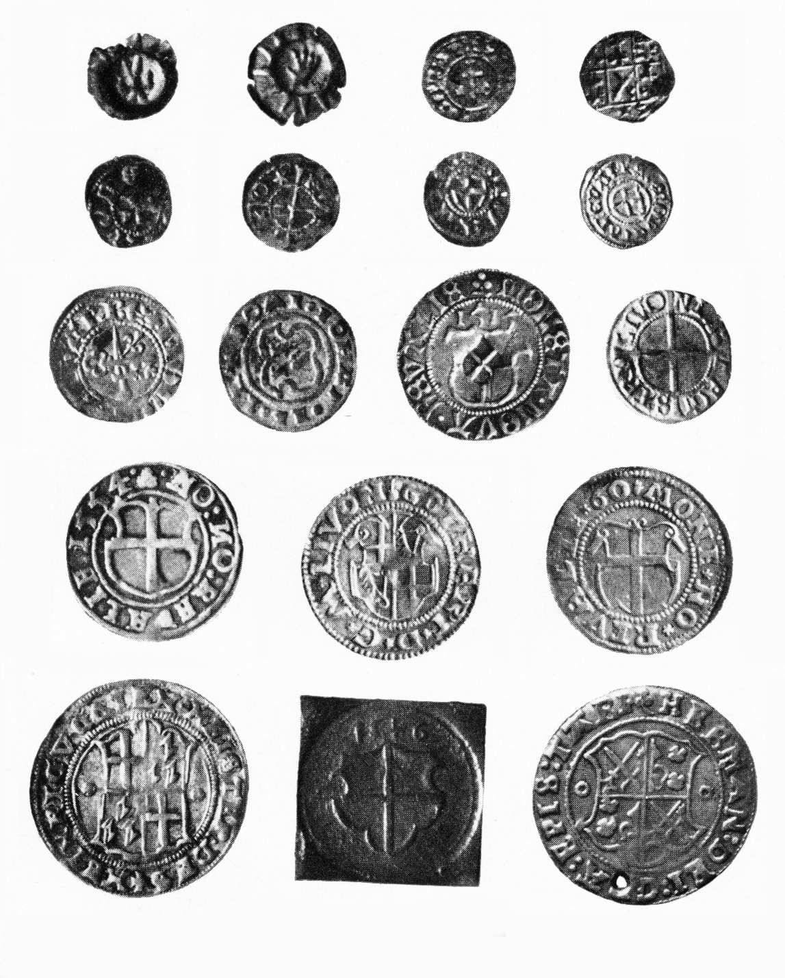 Coins of Medieval Livonia, Estonia: from Bishopric of Dorpat and Reval. 01. Theoror Hake Bishopric of Dorpat XV cen. 02. Bartholomeus Savijerve Bishopric of Dorpat XV cen. 03. Johannes Blankeneldi Bishopric of Dorpat XVI cen. 04. Johannes Blankeneldi Bishopric of Dorpat XVI cen. 5-8 Reval 09. Johannes Vifhusen Bishopric of Dorpat XVI cen. 10. Johannes Bey Bishopric of Dorpat XVI cen. 11. Wolter von Plettenberg, Reval XVI cen. 12. von der Recke Reval XVI cen. 13. Fyrstenberg Reval XVI cen. 14. Kettler Reval XVI cen. 15. Kettler Reval XVI cen. 16. Galen Reval XVI cen. 17. Reval XVI cen. 18. Hermann Wessel Bishopric of Dorpat XVI cen.